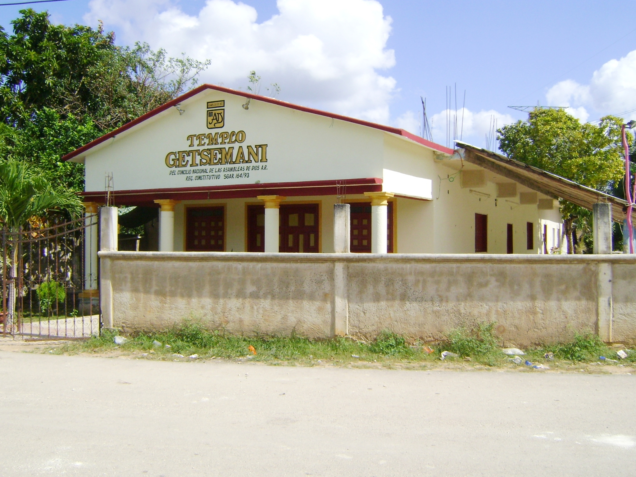 Getsemaní Temple of The National Council of Assemblies of God, R.A, Leona Vicario, Quintana Roo, México